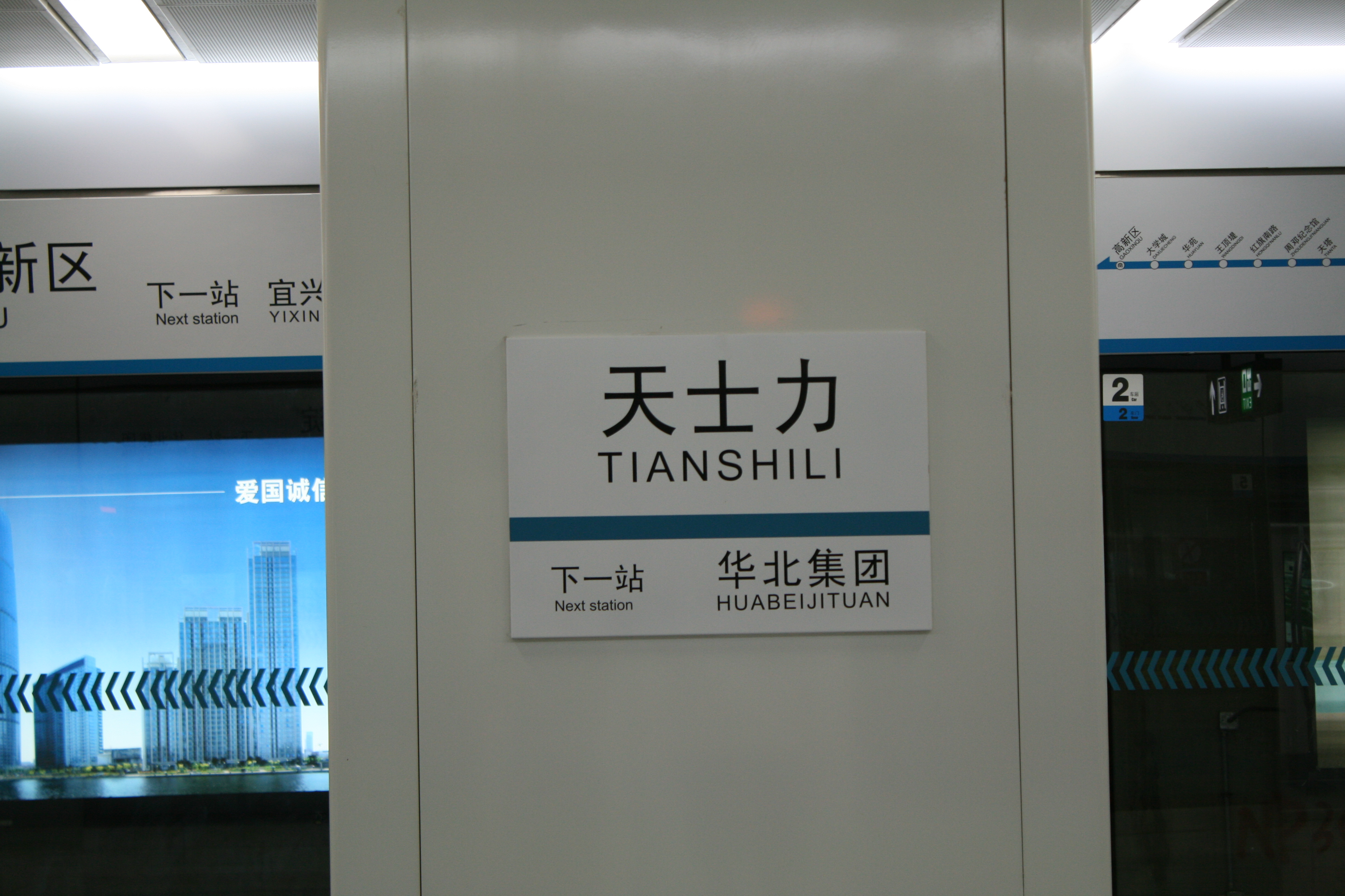 tianjin metro line 3 the TIANSHILI Station ...0002